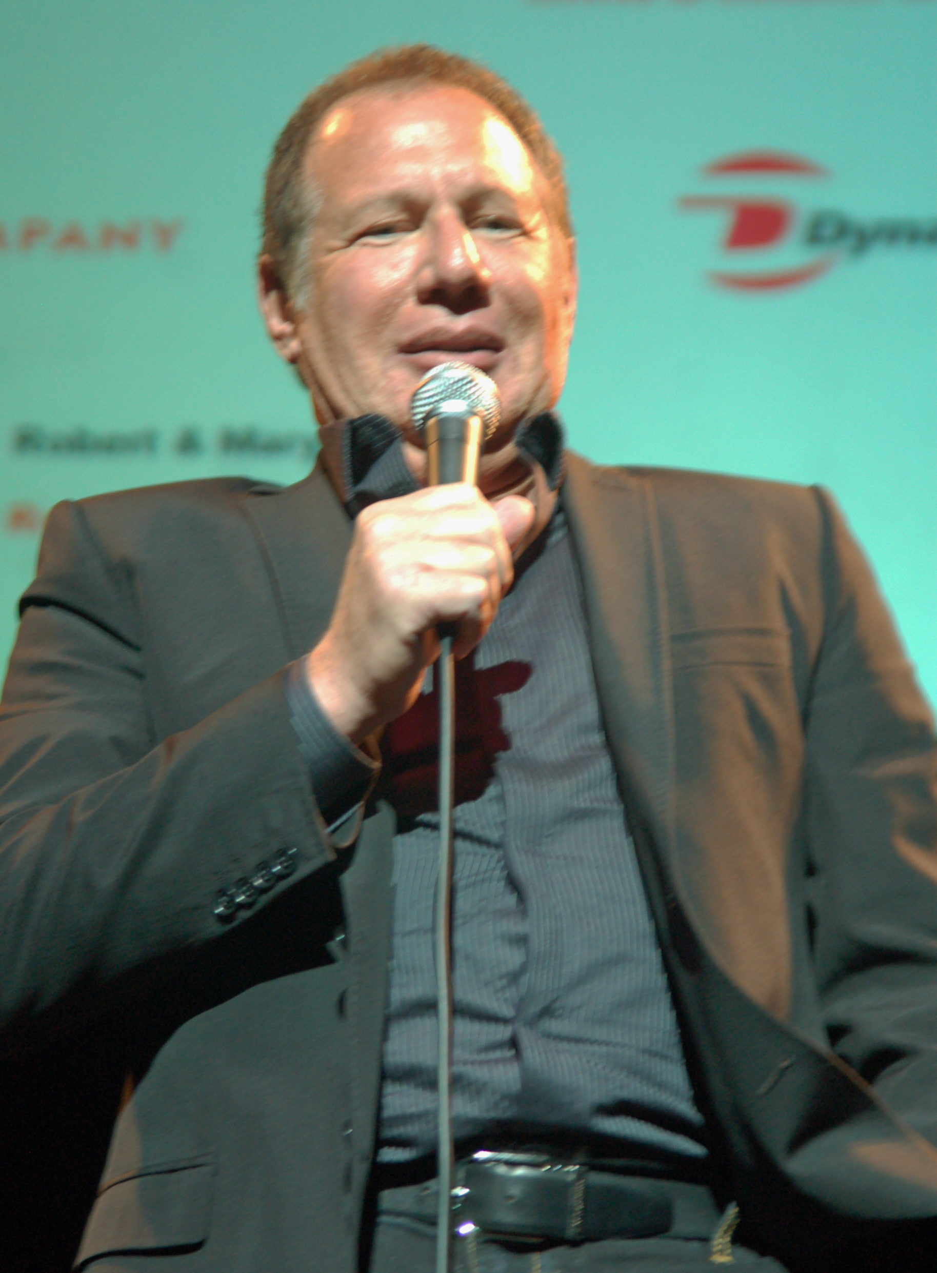 Garry Shandling at the Night of Comedy 9 benefit to support the Children Affected by AIDS Foundation (CAAF) in Beverly Hills, California.